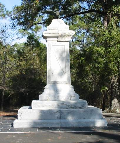 Monument at the Natural Bridge Battlefield State Historic Site. Photograph by J. Williams (Jan 4, 2004)